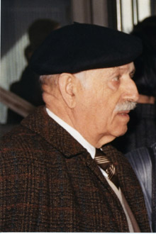 Portrait of writer and poet Cleto José Torrodellas Mur